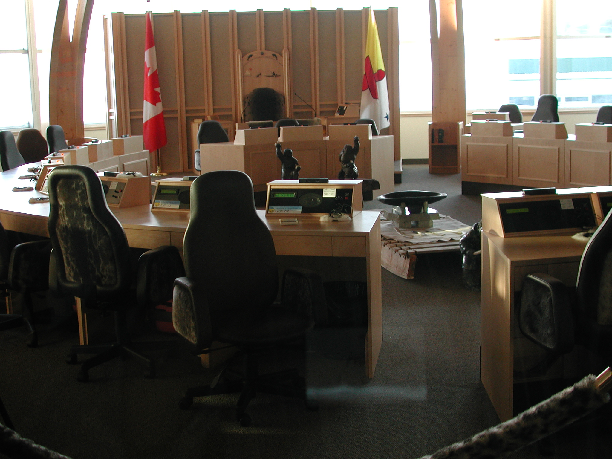 Interior of the Legislative Assembly of Nunavut, Iqaluit. Picture from January 2001.